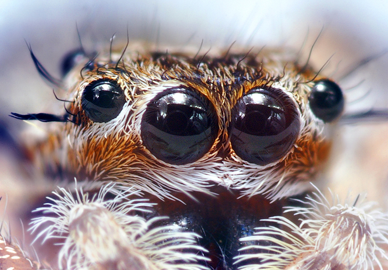 The eyes of a jumping spider at around 8:1 image magnification taken with a Pentax *ist DL.